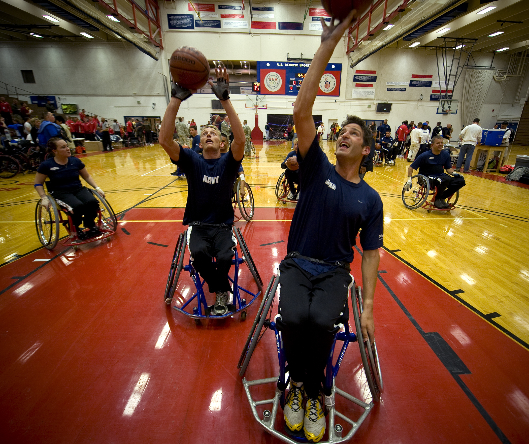 COLORADO SPRINGS, Colo. (May 11, 2010) Navy team members warm up for a preliminary wheelchair basketball game against Air Force at the inaugural Warrior Games at the U.S. Olympic Training Center in Colorado Springs, Colo. Nearly 200 wounded, ill or injured personnel from all service branches will compete in archery, cycling, track & field, swimming, shooting, sitting volleyball and wheelchair basketball. (U.S. Navy photo by Mass Communication Specialist 1st Class R. Jason Brunson/Released)